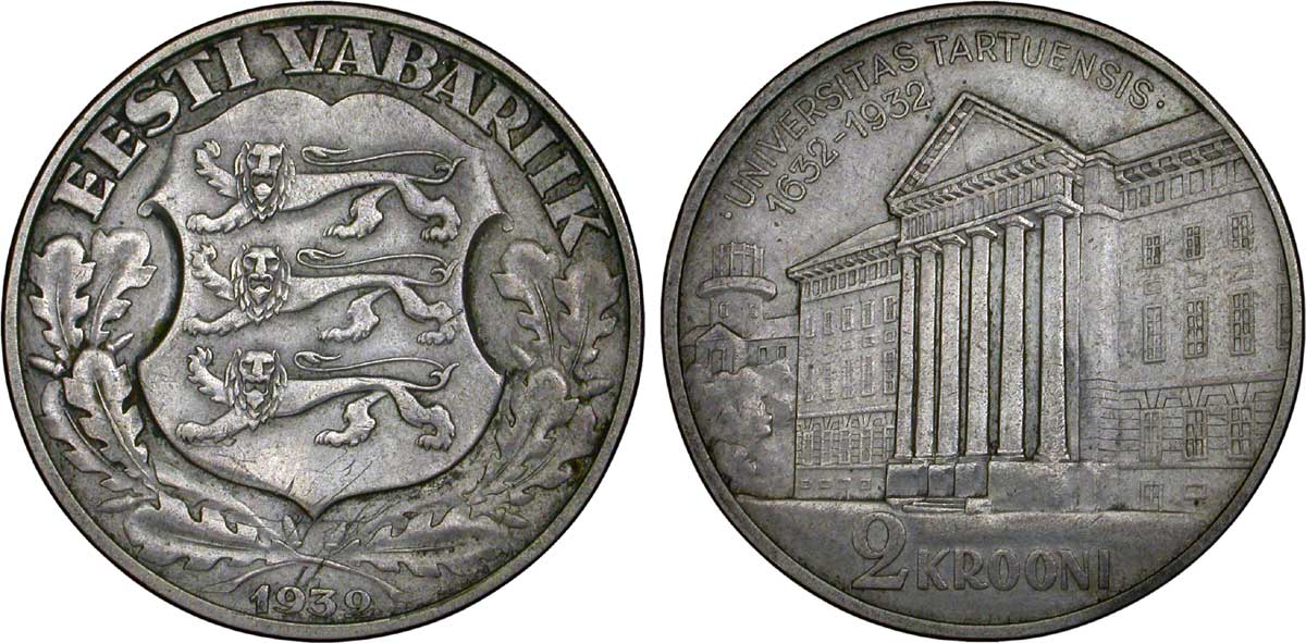 ESTONIE, 2 Krooni célébrant le tricentenaire de l'Université de Tartu, 1939